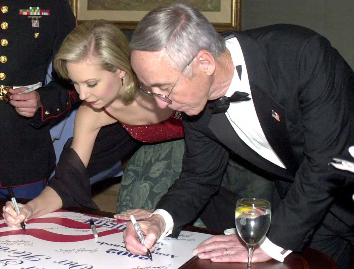 Sergeant Tim Chambers, Chief Defense Clerk with Headquarters Marine Corps, waits his turn to sign the USO VIP poster as he watches Katie Harman, Miss America 2002 and Secretary of the Navy Gordon England personalize the poster at the USO's Annual Awards Dinner. The dinner was held April 10th at the Ritz-Carlton Hotel in Arlington, Va. PhotoID: 200241111559